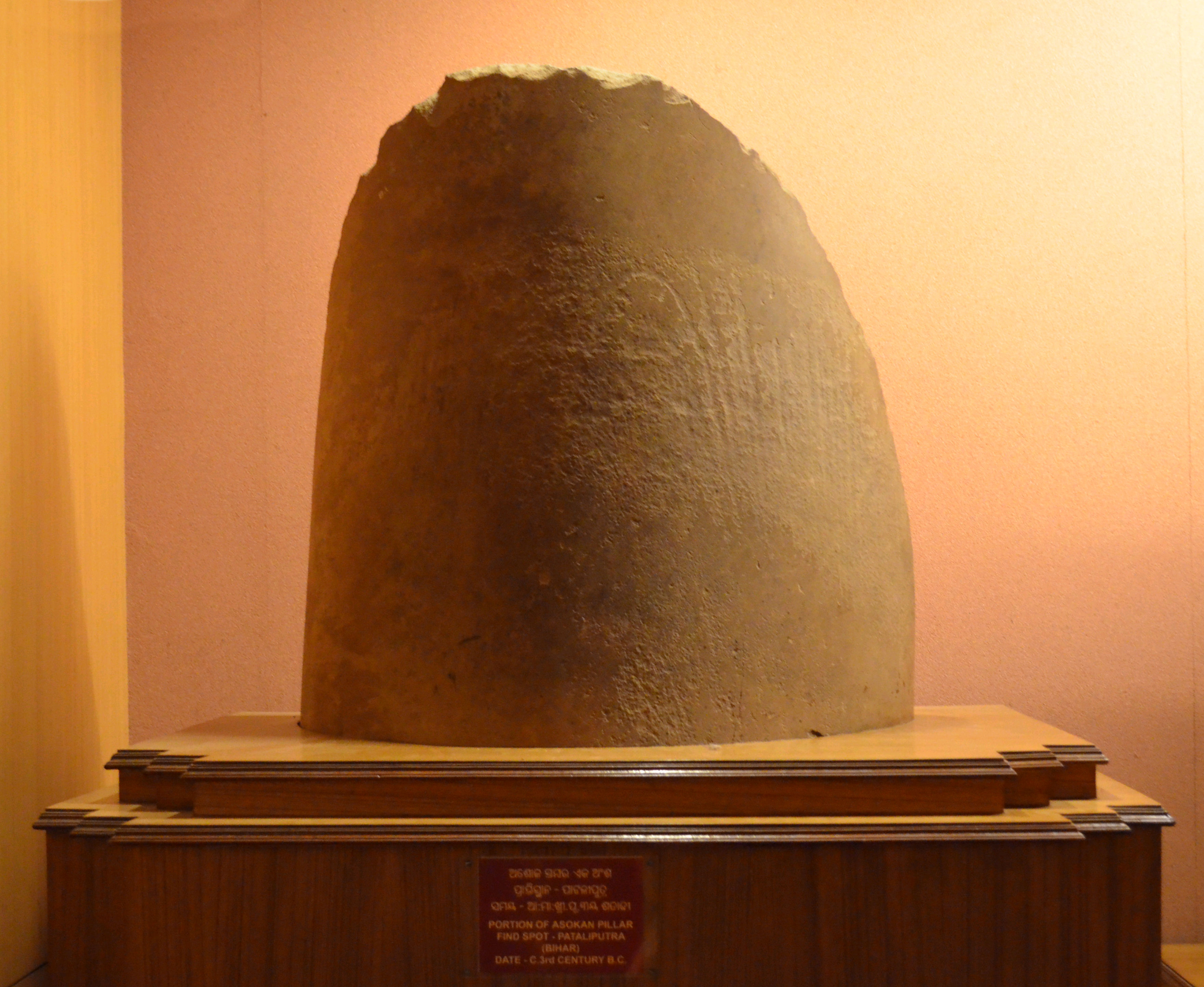 Portion of Asokan pillar, found in Pataliputra, Modern Bihar - 3 A.D.